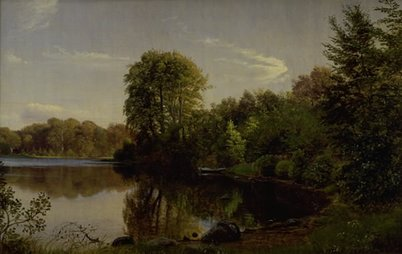 Aften ved Bondedammen i Hellebæk 1858 (60 cm x 38 cm)